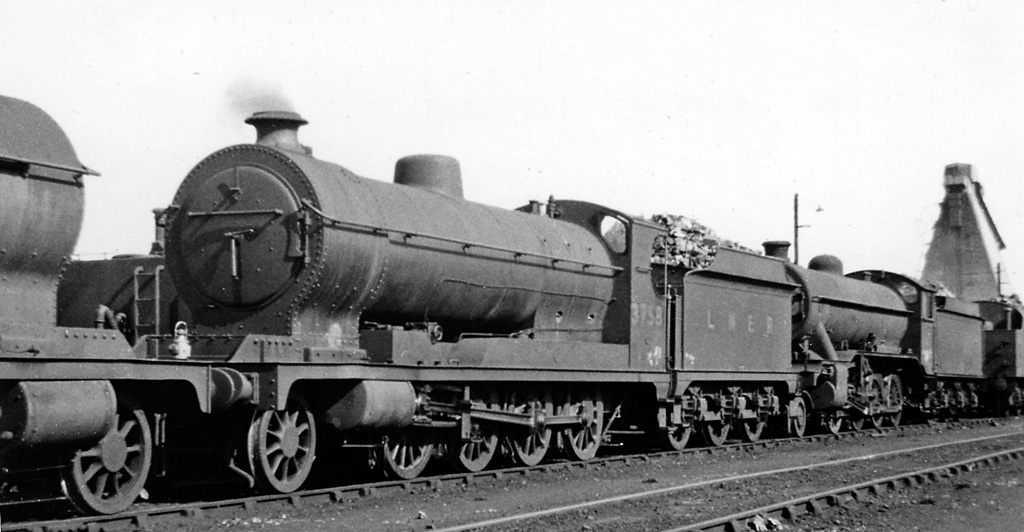 Sunday line-up of heavy freight locomotives at Whitemoor Depot, March. View NE, at the Locomotive Depot serving the great Whitemoor Yards at March, ex-Great Northern & Great Eastern Joint lines. Facing is ex-Great Central O4 2-8-0 No. 3758 (one of many built for the War Department in the First World War), and behind it is Gresley O2 2-8-0 No. 3847. In all there were 181 locomotives there that Sunday. (See also TL4198 : D16/2 'Super-Claud' 4-4-0 by coaler at March Locomotive Depot).